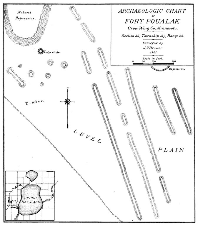 Map of Upper Hay Lake mounds (a.k.a. Fort Poualak) made by Jacob V. Brower and published in 1901.